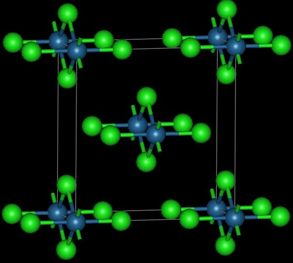 OsCl4 structure. Green atoms are chlorine. Journal = INORGANIC CHEMISTRY, WASHINGTON D.C., Year = 1977, Volume = 16, Page = 1865–1867, Title = Structure of the High-Temperature Form of Osmium(IV) Chloride, Authors = Cotton F.A., Rice C.E.